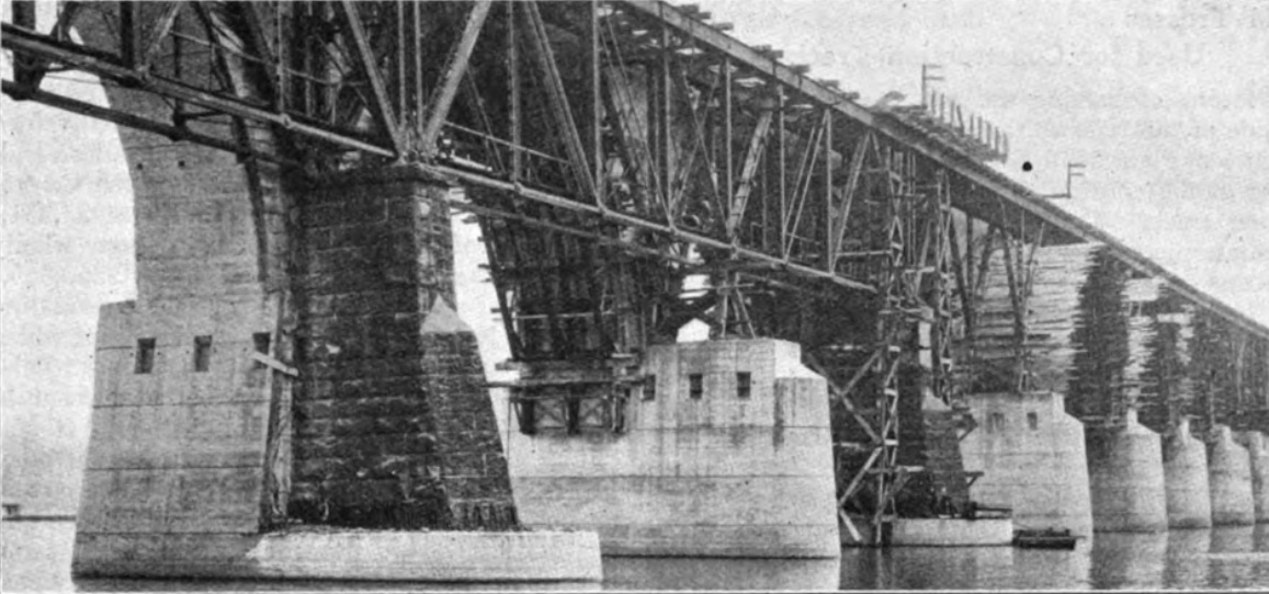 Original Description: Showing a Number of Stages of the Construction (Old wrought-iron deck-truss in the foreground, behind it the new concrete bridge-arche)